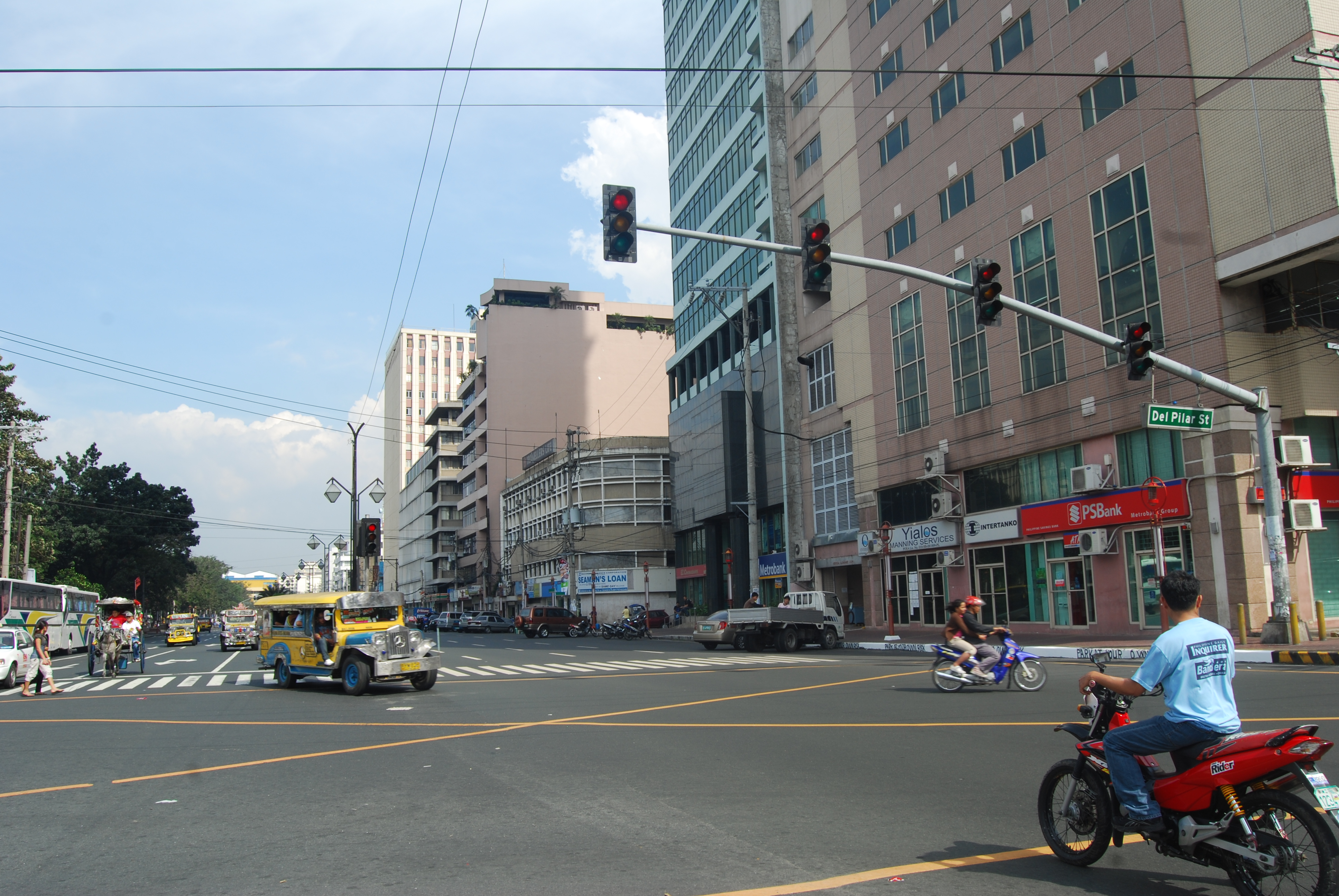 Corner of Maria Orosa Ave. and Julio Nakpil St. in Manila, Philippines